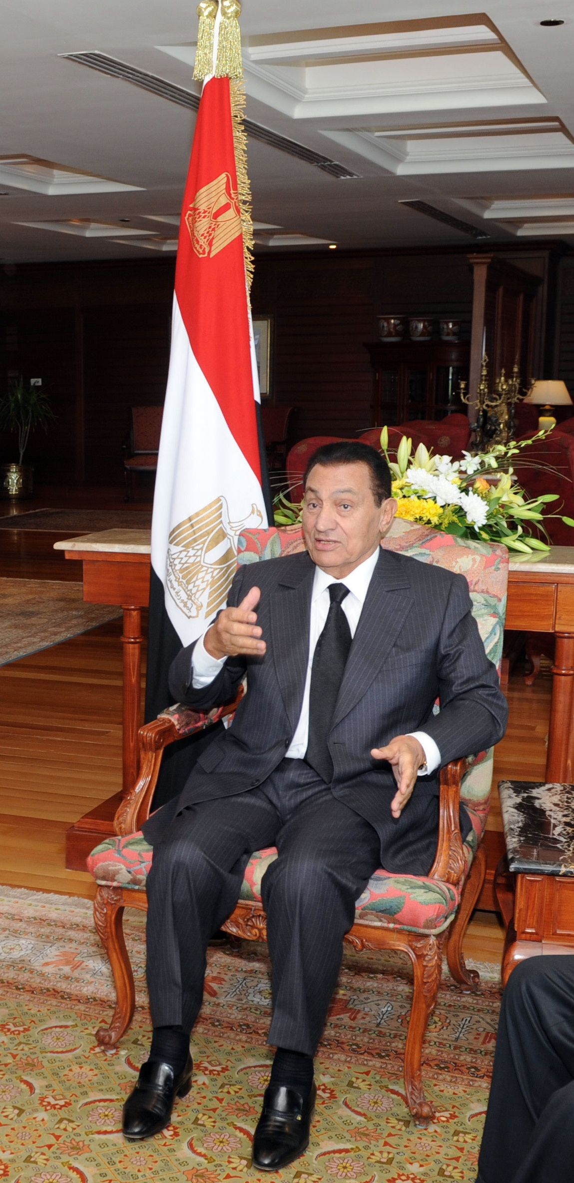 Egyptian President Hosni Mubarak welcomes (left to right) U.S. Secretary of State Hillary Rodham Clinton, Palestinian President Mahmoud Abbas, and Israeli Prime Minister Benjamin Netanyahu in Sharm El Sheikh, Egypt, on September 14, 2010.